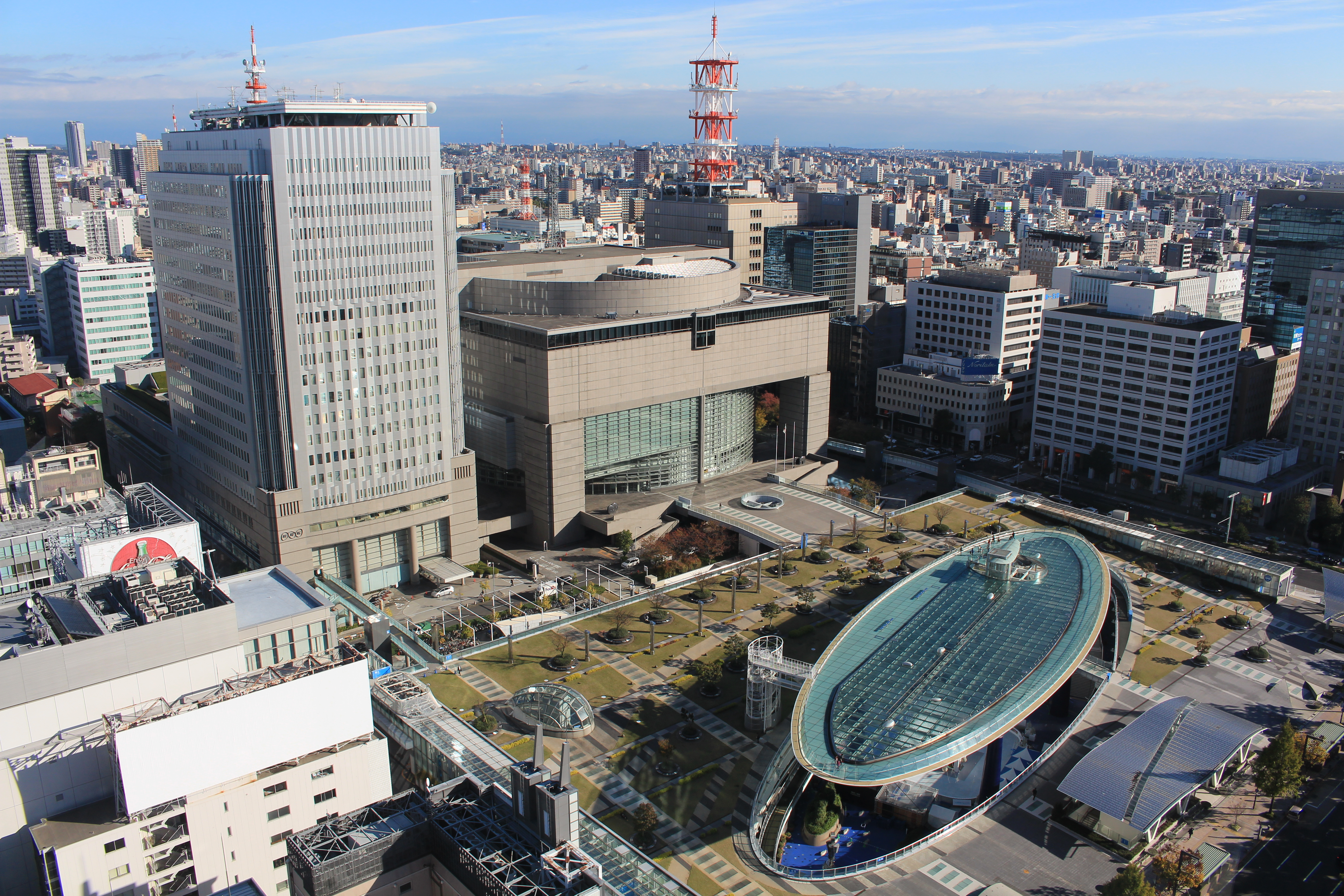 Oasis 21 and NHK Nagoya Broadcasting Center Building seen from Nagoya TV Tower in Nagoya, Aichi prefecture, Japan.